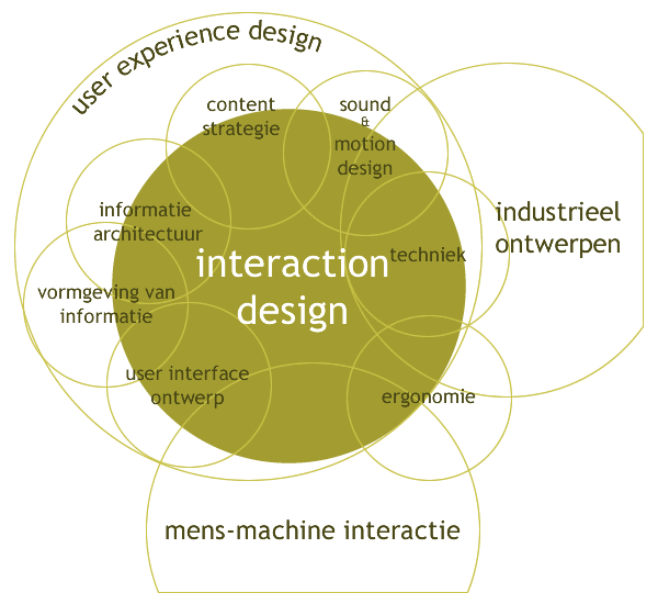 Dutch adaptation of 'The overlapping disciplines of interaction design' by Dan Daffer.